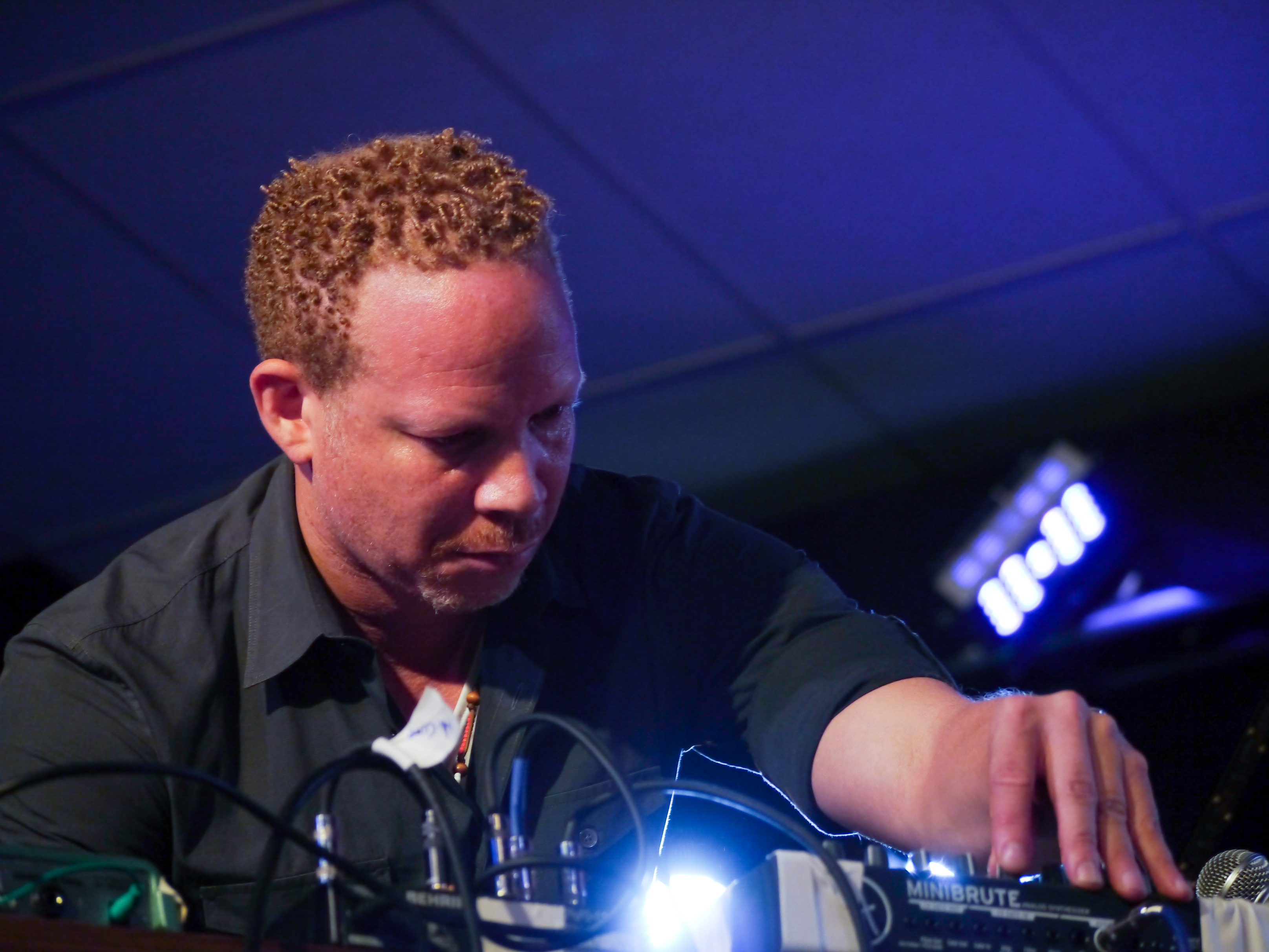 Keyboardist Craig Taborn performs at the 2013 Monterey Jazz Festival.